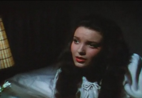 Cropped screenshot of Linda Darnell from the trailer for the film Blood and Sand.